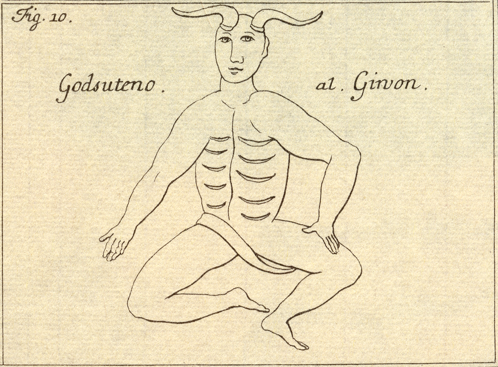 Tsuno Daishi ("horned great master"), a Japanese talisman. On his way to Edo in 1691 Engelbert Kaempfer saw these paper glued to doorposts of many houses. His description published in the History of Japan is correct, but he wrongly called it Gozutennō. Tsuno Daishi was one of the many names of the Tendai monk Ryōgen.